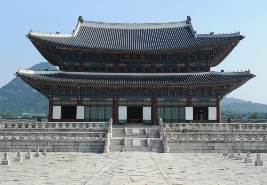 Gyeonbokgung was the palace of Chosun dynasty in Seoul Korea.